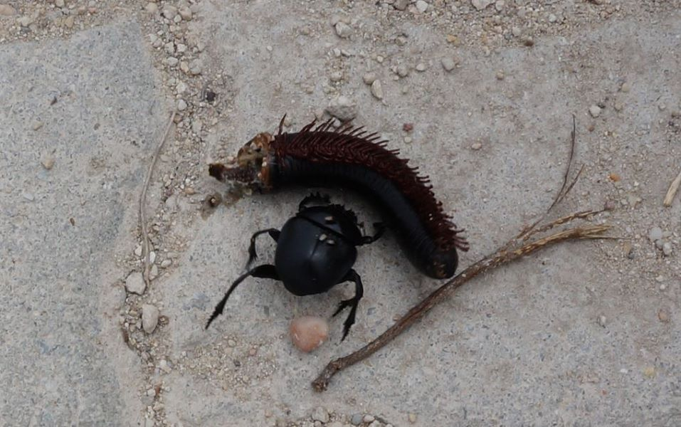 Scarab beetle Sceliages adamastor at De Hoop Nature Reserve, South Africa - Synonyms: Ateuchus adamastor LePeletier & Serville, 1828, Sceliages curvipes Gillet, 1911, Sceliages iopas Westwood, 1837, Sceliages jopas Zur Strassen, 1965